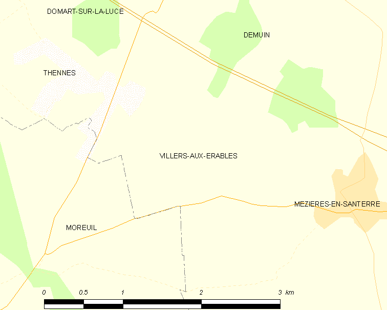 Map of French municipality Villers-aux-Érables